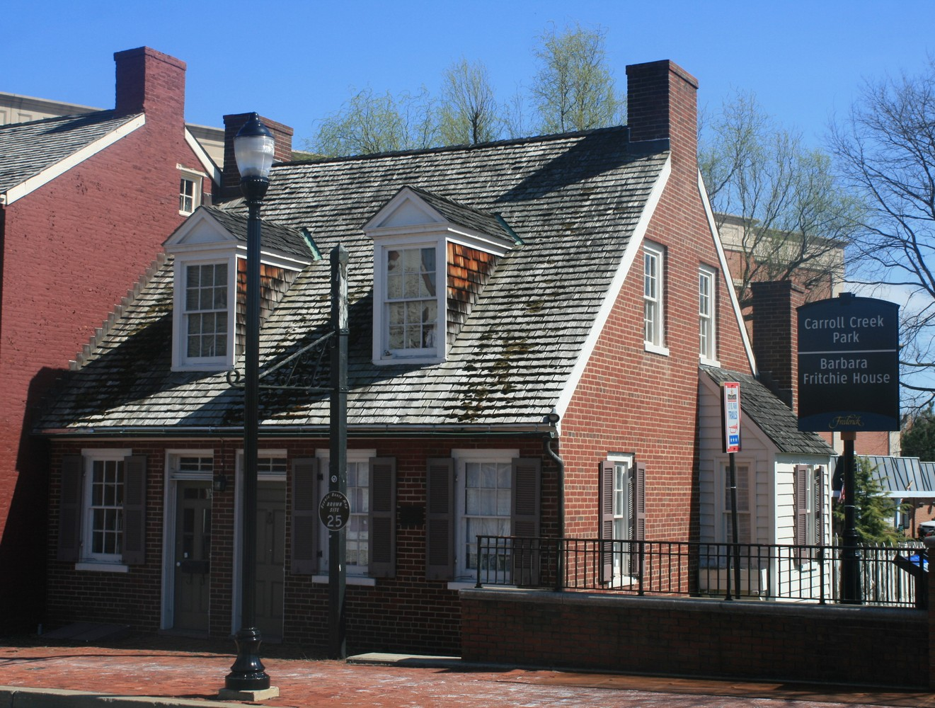 Barbara Frietchie House in Frederick